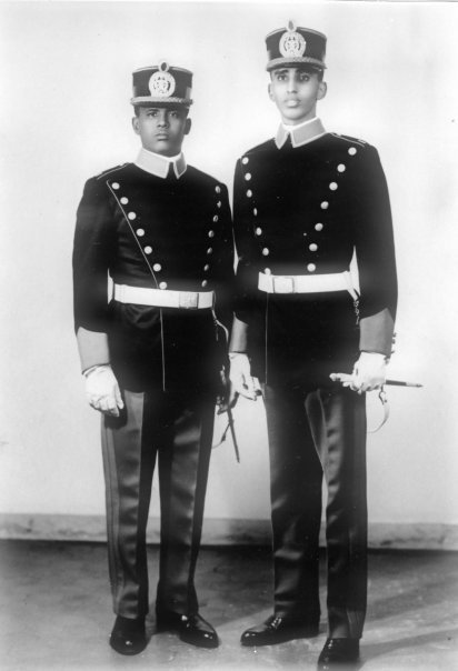 photo